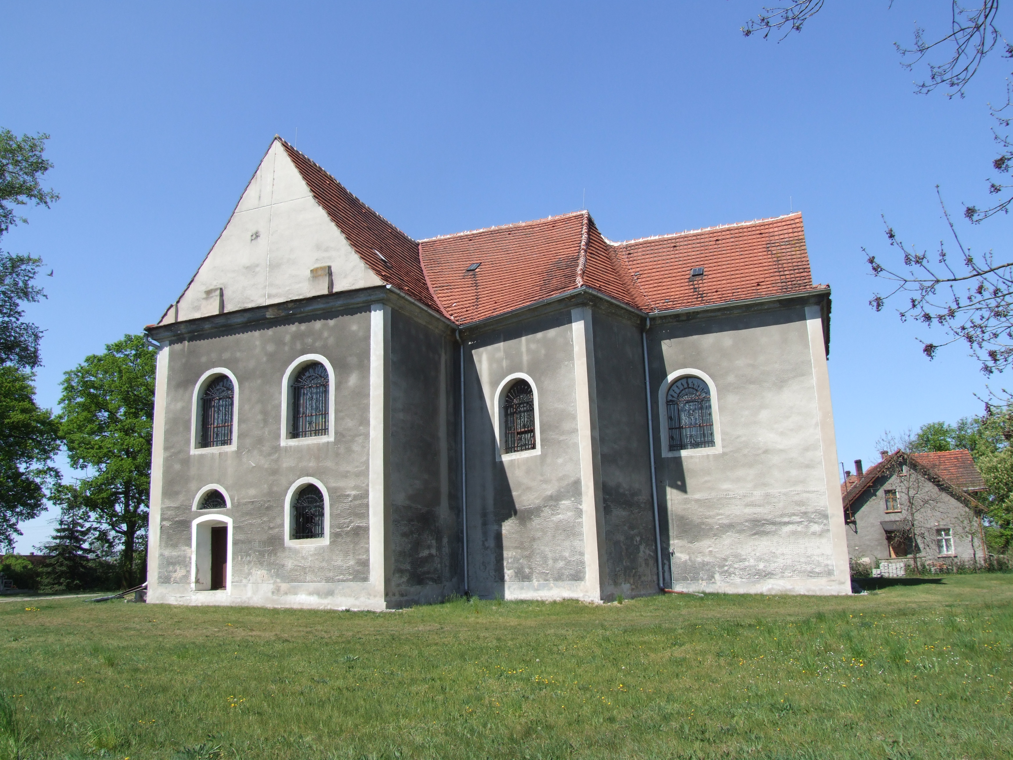 Saint Anne church in Konotop near Zielona Góra